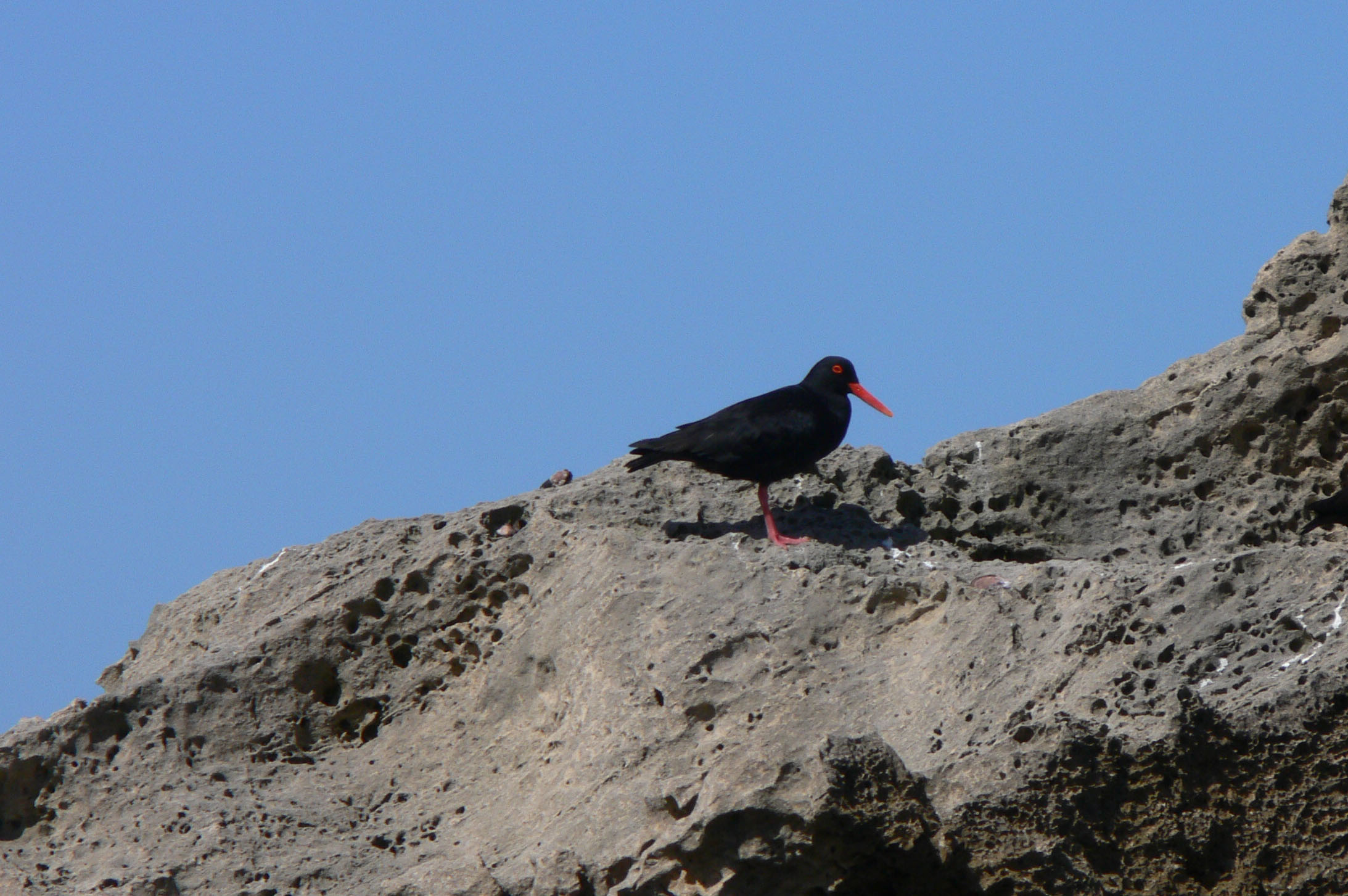 African Black Oystercatcher (Haematopus moquini), de Hoop Nature Reserve, Overberg, Western Cape, Southafrica